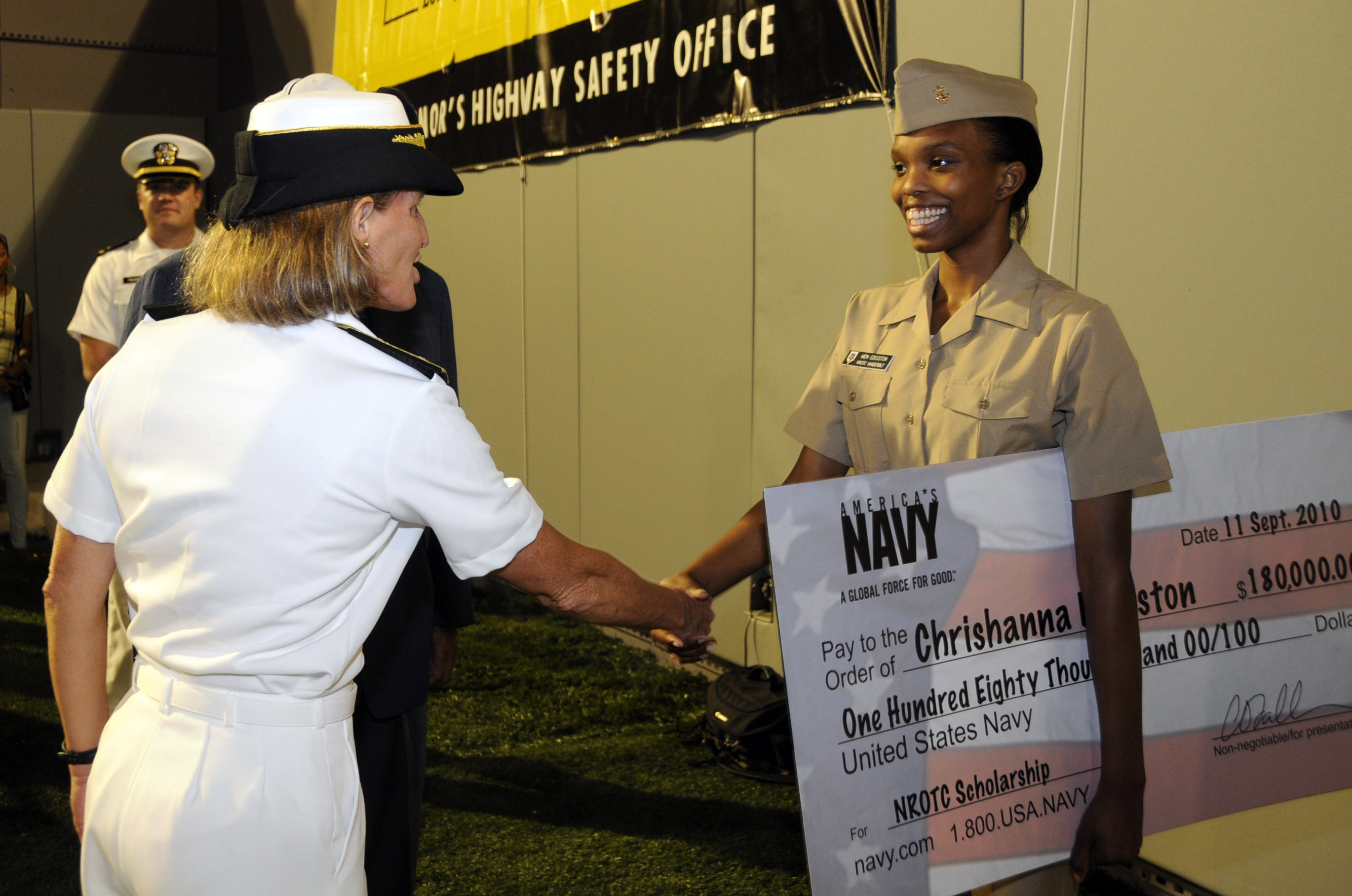 Rear Adm. Robin Graf, deputy commander of Navy Recruiting Command, shakes hands with Midshipmen Chrishanna Edgeston after presenting her with a Naval ROTC scholarship check during the 21st Southern Heritage Classic football game at Liberty Stadium. Sailors from across Navy Recruiting District Nashville attended multiple events during the Southern Heritage Classic cultural celebration to foster diversity in recruiting throughout the region.